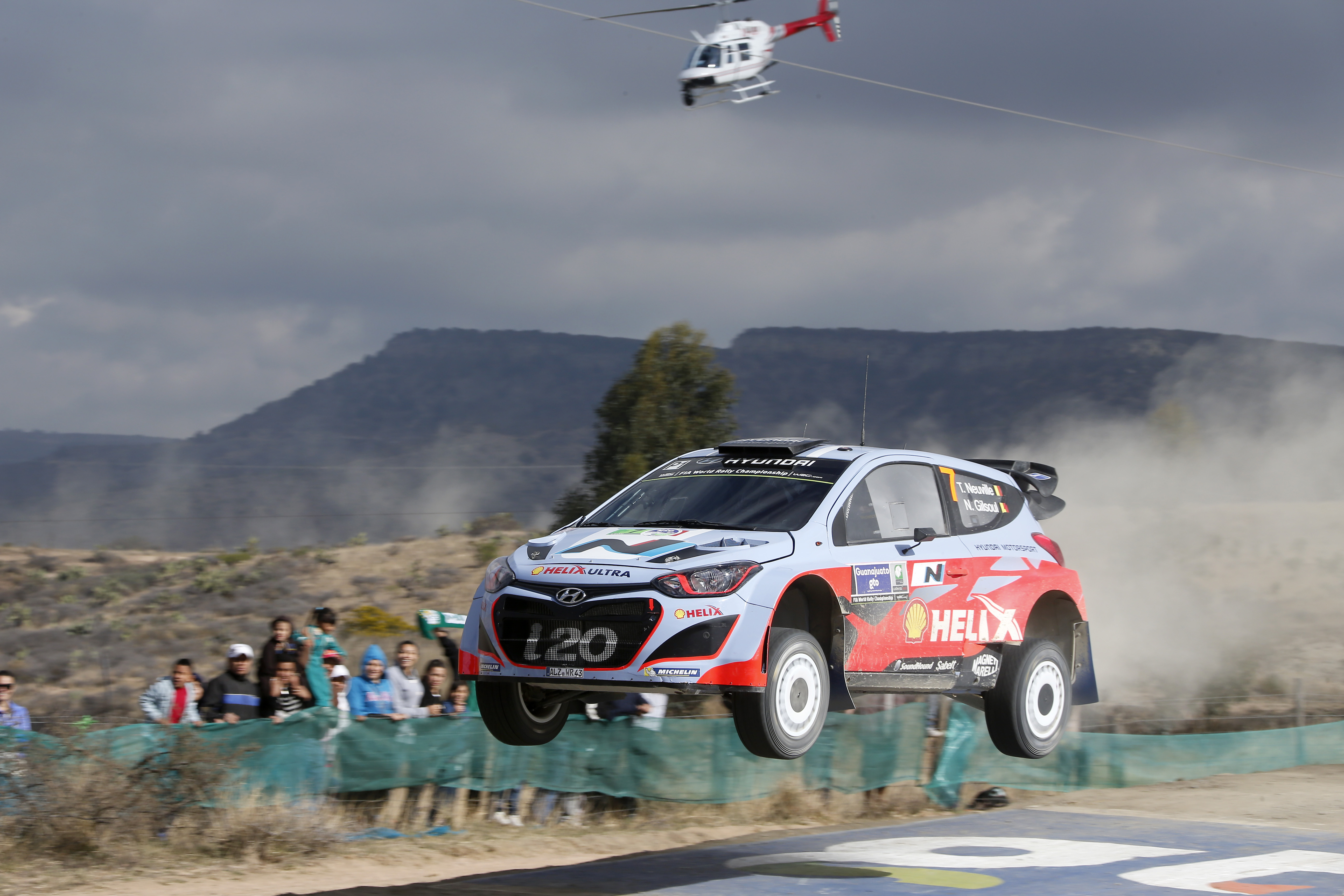 Thierry Neuville and co-driver Nicolas Gilsoul in their Hyundai i20 WRC in the 2014 Rally Mexico.